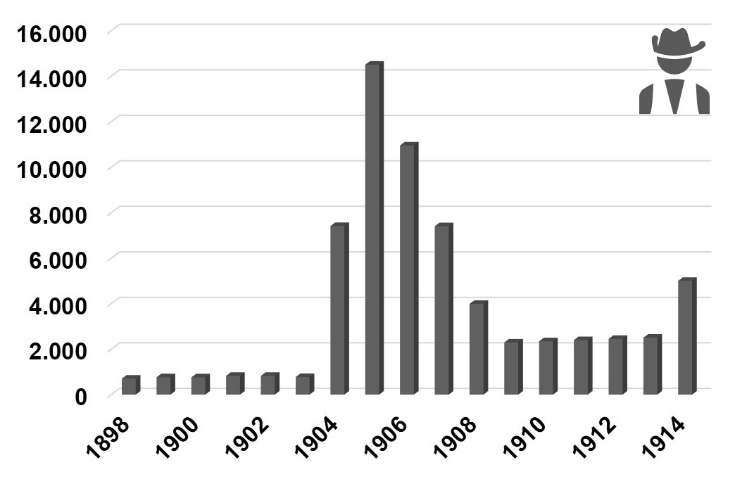 Numbers of Members of the Schutztruppe of German South West Africa (according information from Hans Emil Lenssen: Chronik von Deutsch-Südwestafrika 1883 – 1915. 7. issue, Namibia Wissenschaftliche Gesellschaft, Windhoek 2002, ISBN 3-933117-51-8, p. 94, 102, 107, 113, 118, 121, 150, 175, 192, 194, 199, 202, 214).